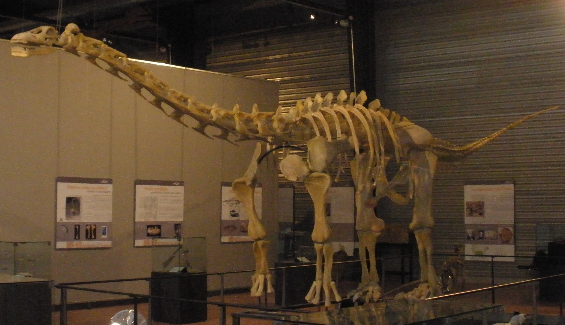 fossil of a titanosaurian